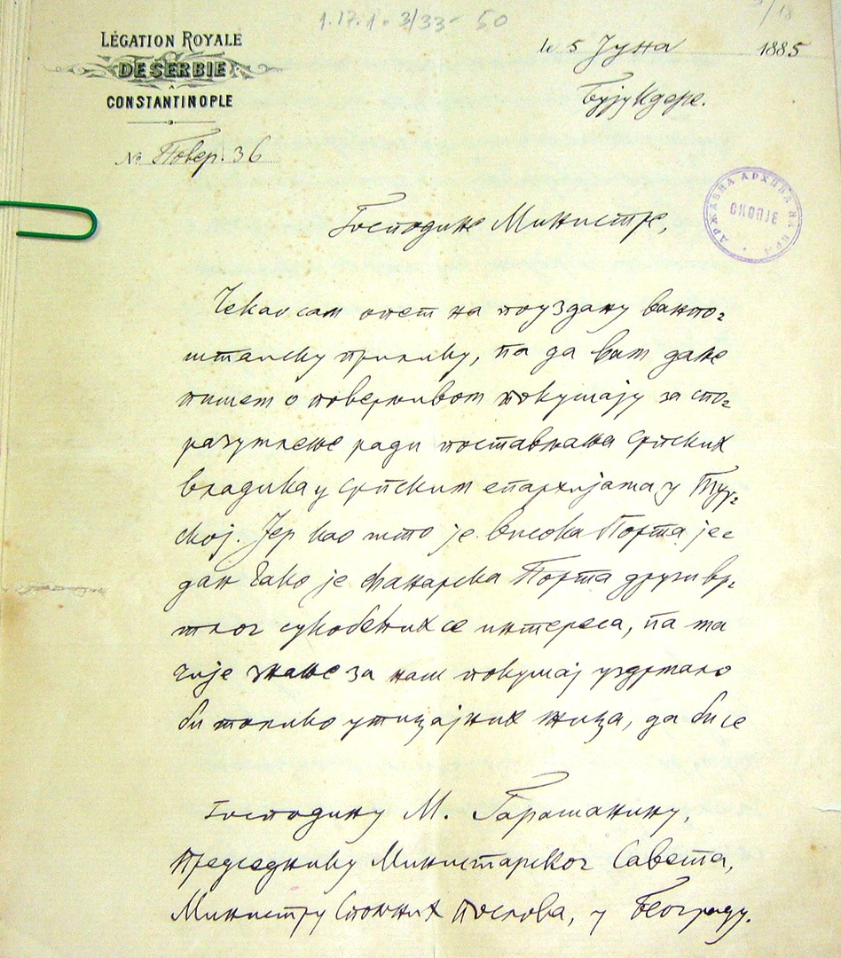 Report Yevrem Gruikj to Garašanin the course of attempts to place Serbian bishops in Turkey (Old Serbia and Macedonia). (Istanbul, June 5, 1885) This media file is produced by Wikipedian in Residence in Category:Wikipedian in Residence at DARM in 2016.